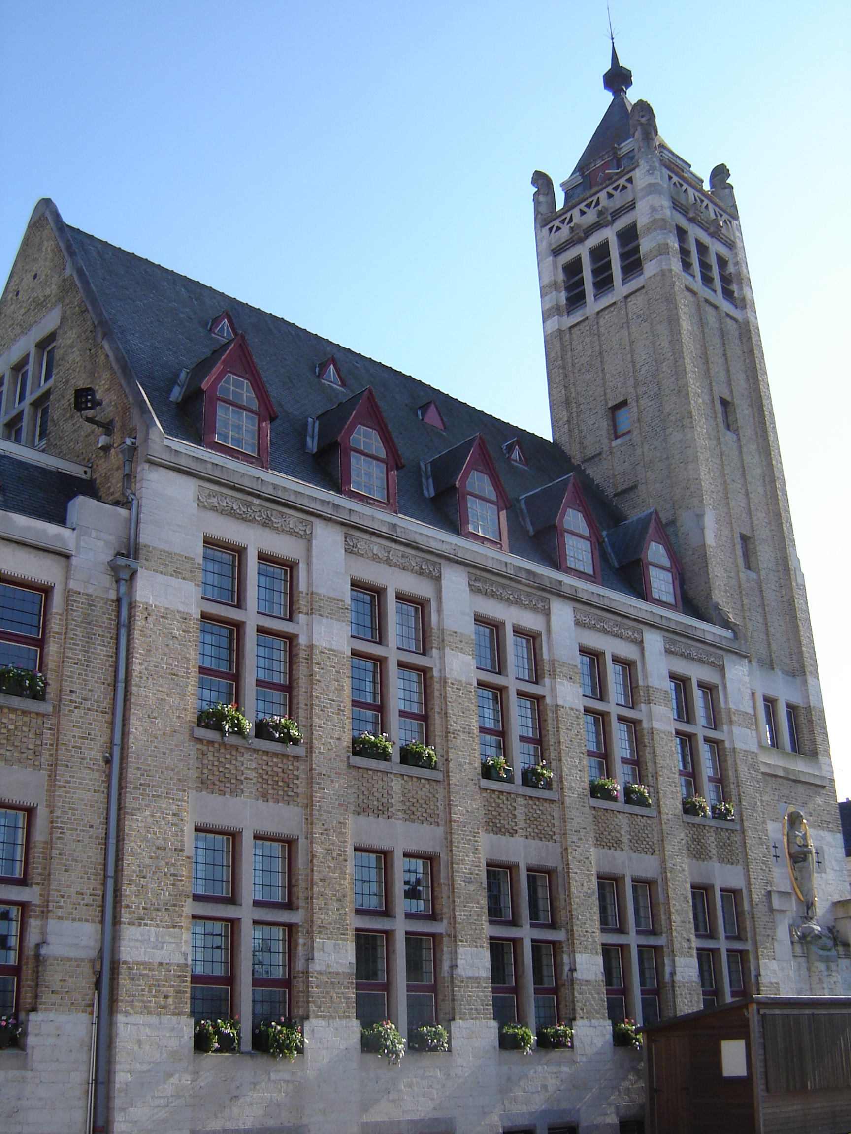 Modern part of the city hall and the belfry of Roeselare, West Flanders, Belgium